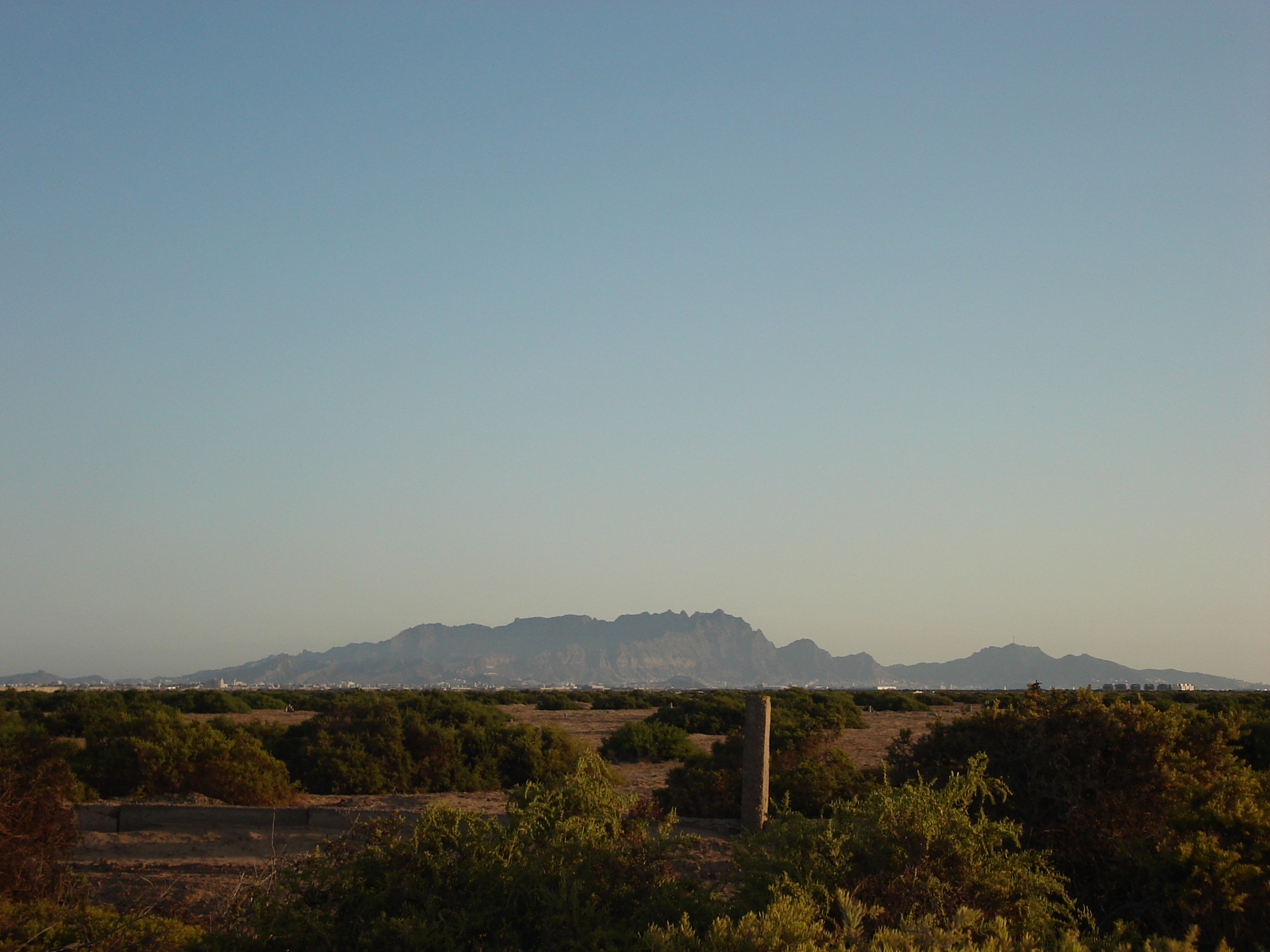 View on Crater district (Shamsan Mountains) from Al-Alam area (Northern premises of Aden city). Aden city, Yemen.